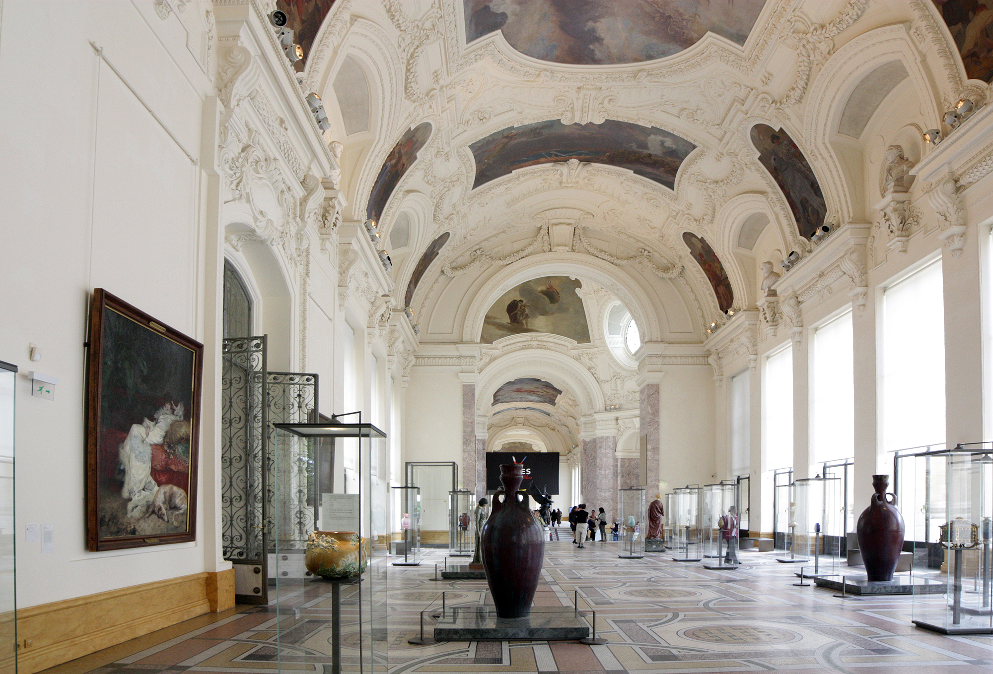 Petit Palais hall